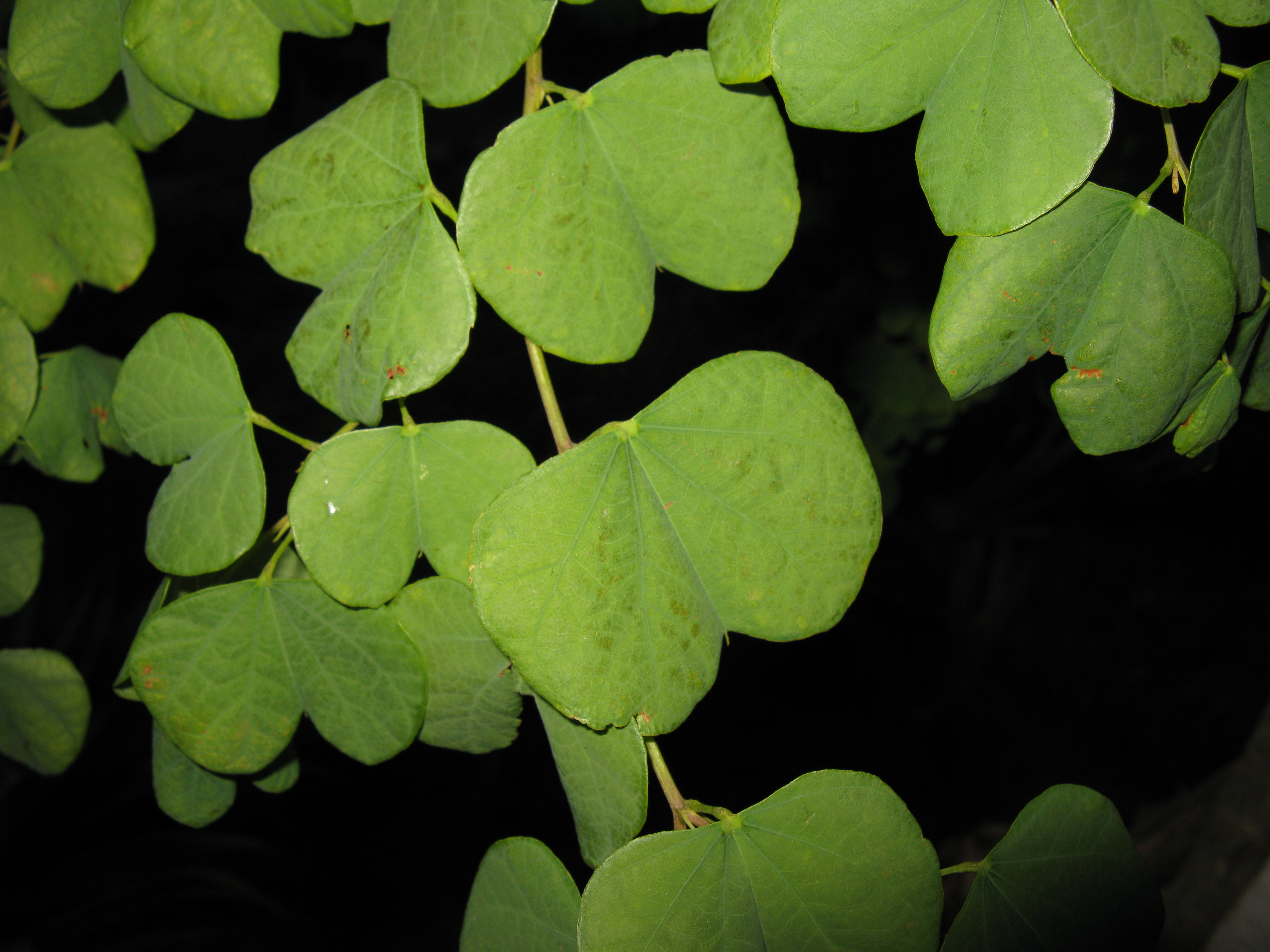 The bilobed leaves have soft mucro at the tip of the midrib. As it is easily damaged, it often is missing.